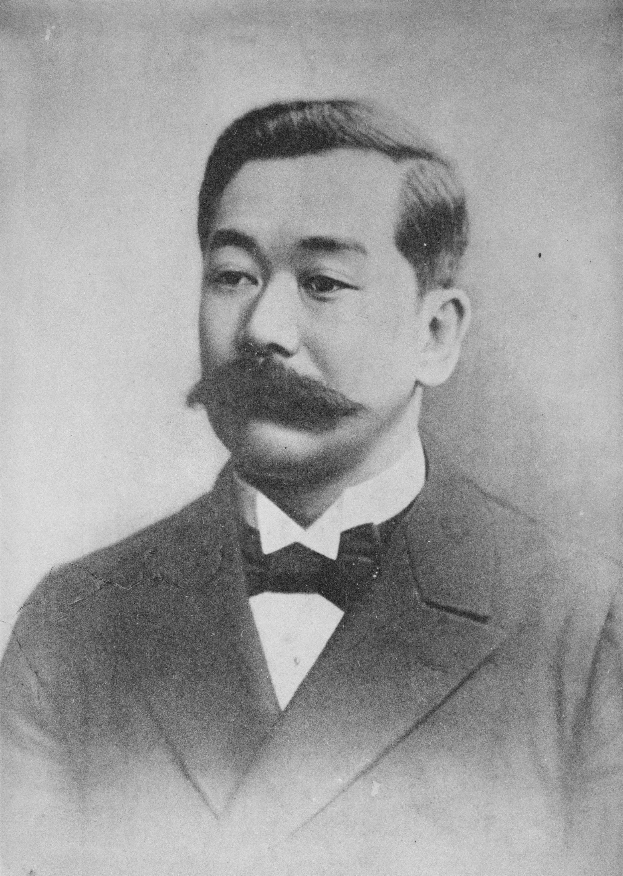 Kanō Jigorō, director of the Tokyo Higher Normal School.